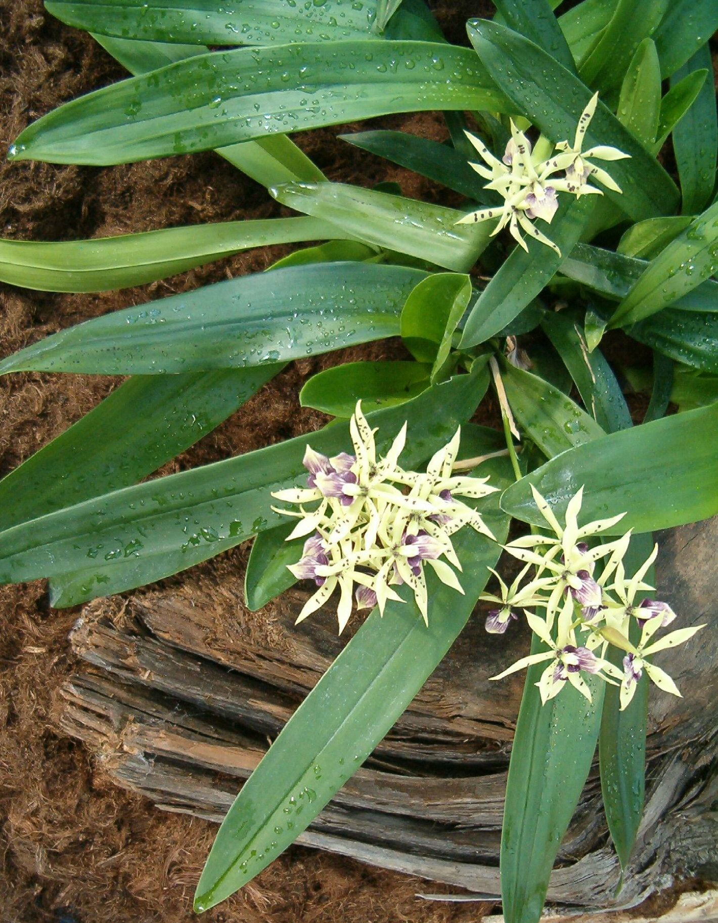 Prosthechea cochleata, Habitus and Flowers Location: Botanical Gardens Berlin - Orchid Exhibition